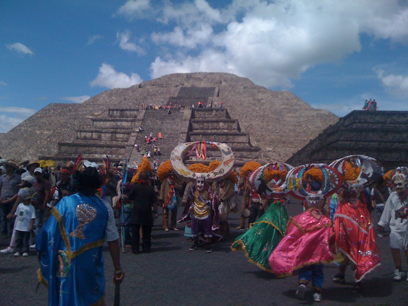 Pirámide del Sol in Teotihuacan, Mexico